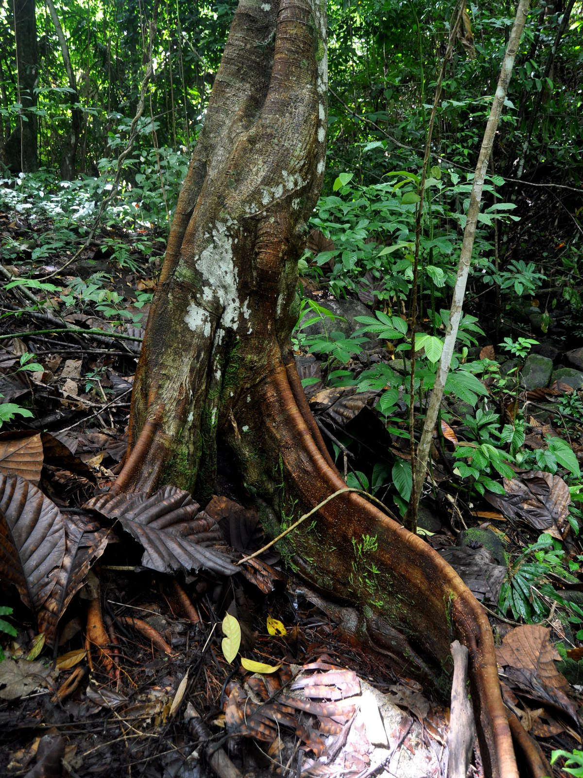 Butress of young punuk tree (Artocarpus elasticus); from Ketapang, West Kalimantan, Indonesia